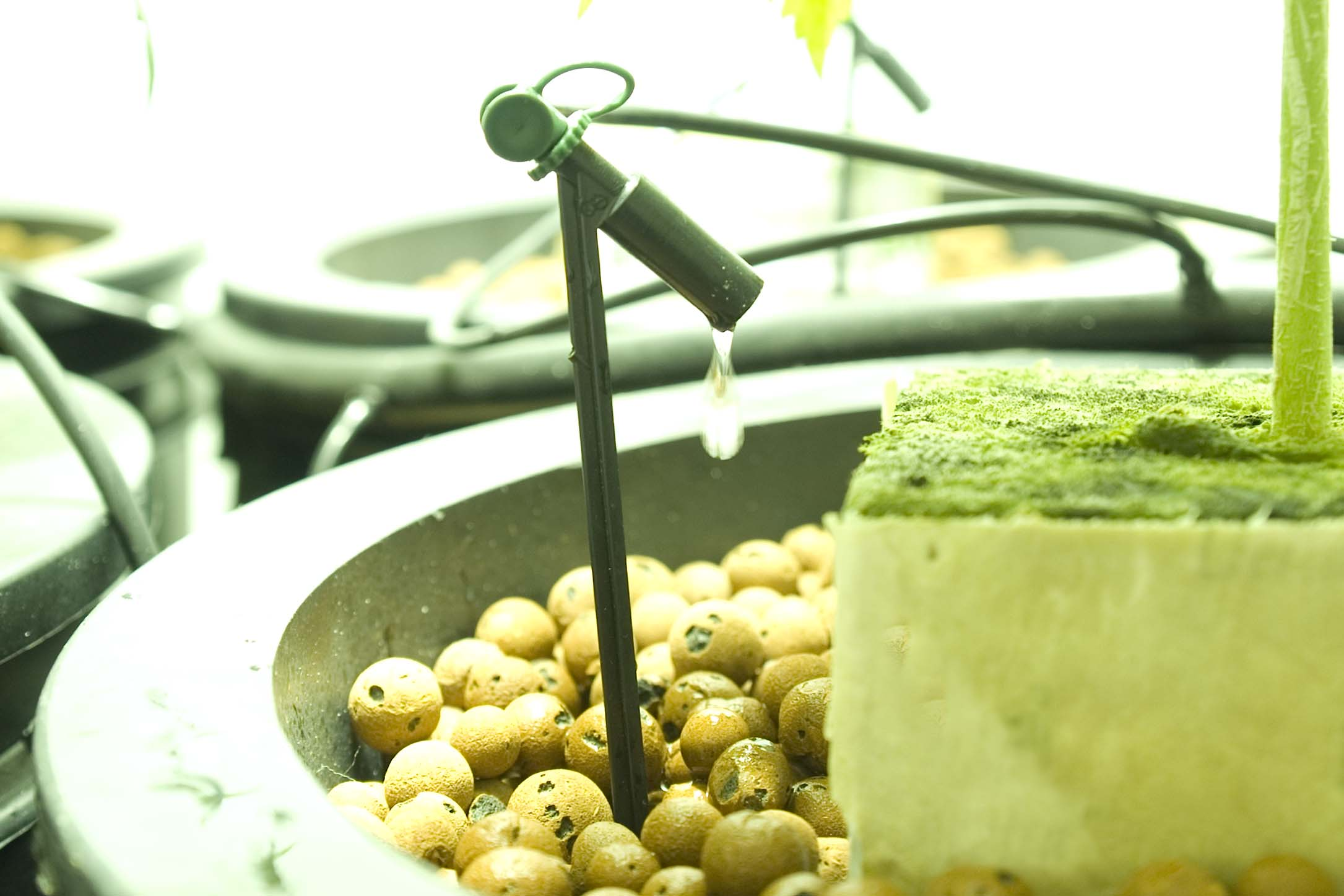 Drip emitter on a rockwool and expand clay hydroponic setup.